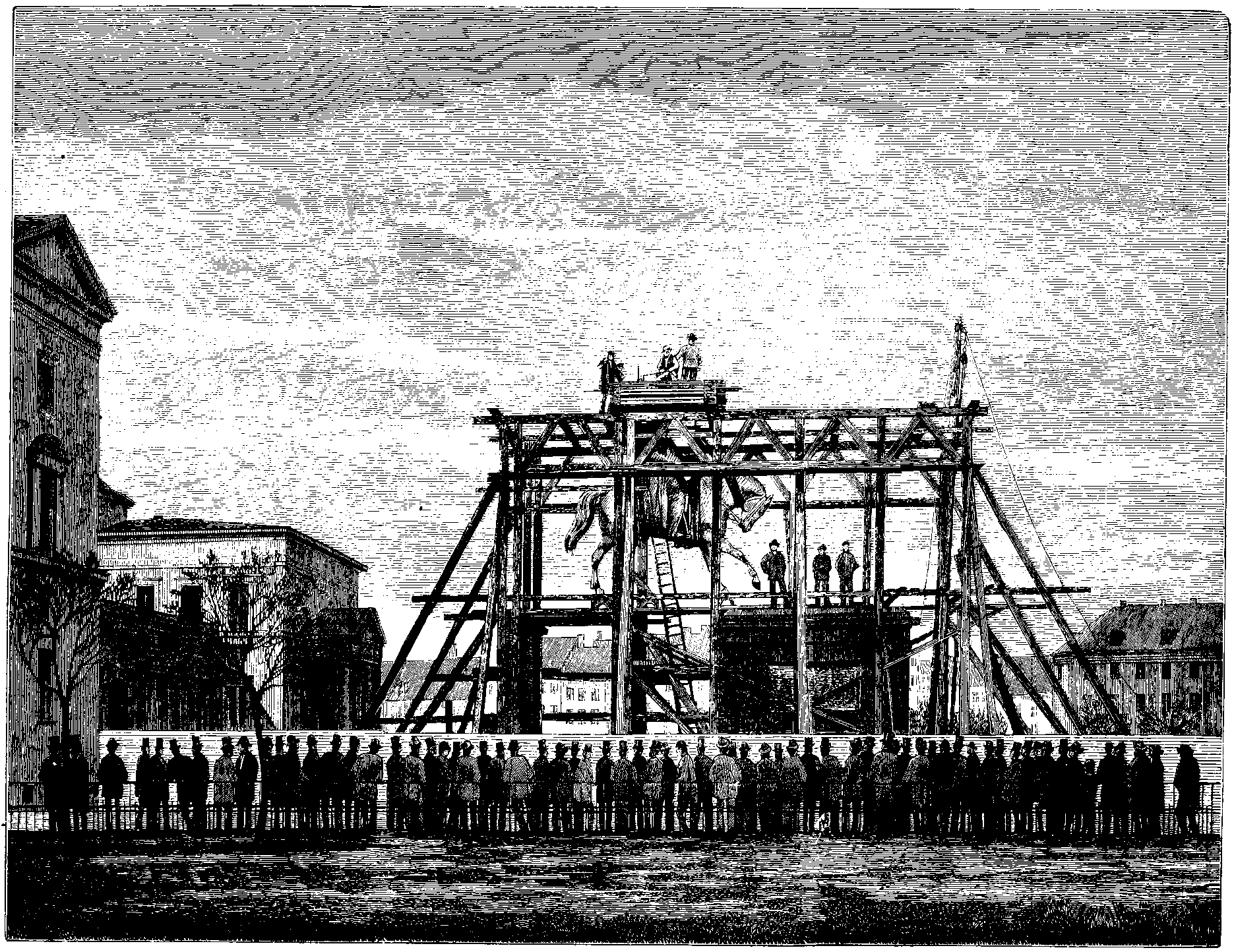 Erection of horse and rider statue of King Frederik VII of Denmark in 1873 at Christiansborgs Slotsplads, Copenhagen